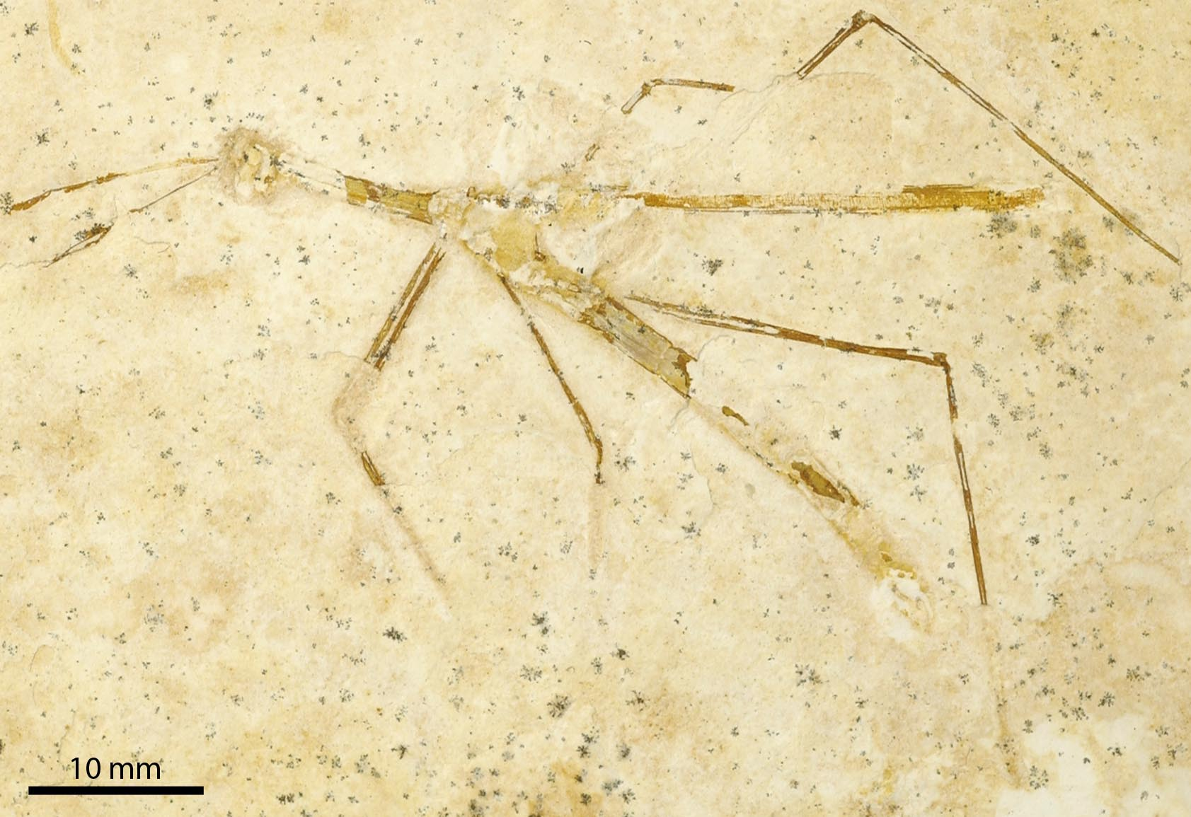 Eoproscopia martilli (Orthoptera: Proscopiidae) from the Lower Cretaceous Crato Formation of Brazil (holotype female). This specimen is housed in the Staatliches Museum für Naturkunde Stuttgart (SMNS), specimen no. 66000–135.